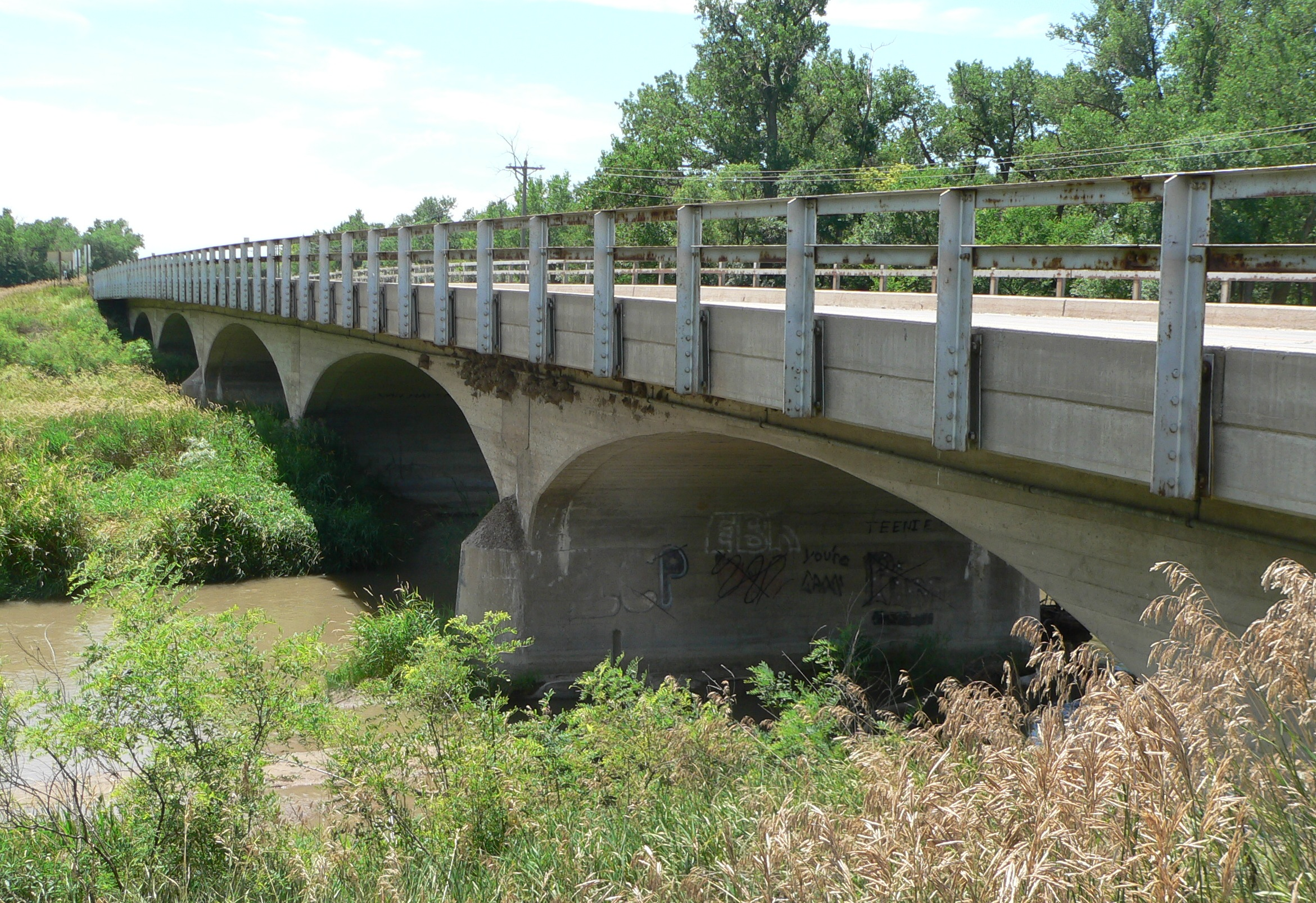 Cambridge State Aid Bridge, carrying Nebraska Highway 47 across the Republican River just south of Cambridge, Nebraska; seen from the northeast (upstream is west). The deck arch bridge was constructed in 1914. It is listed in the National Register of Historic Places.